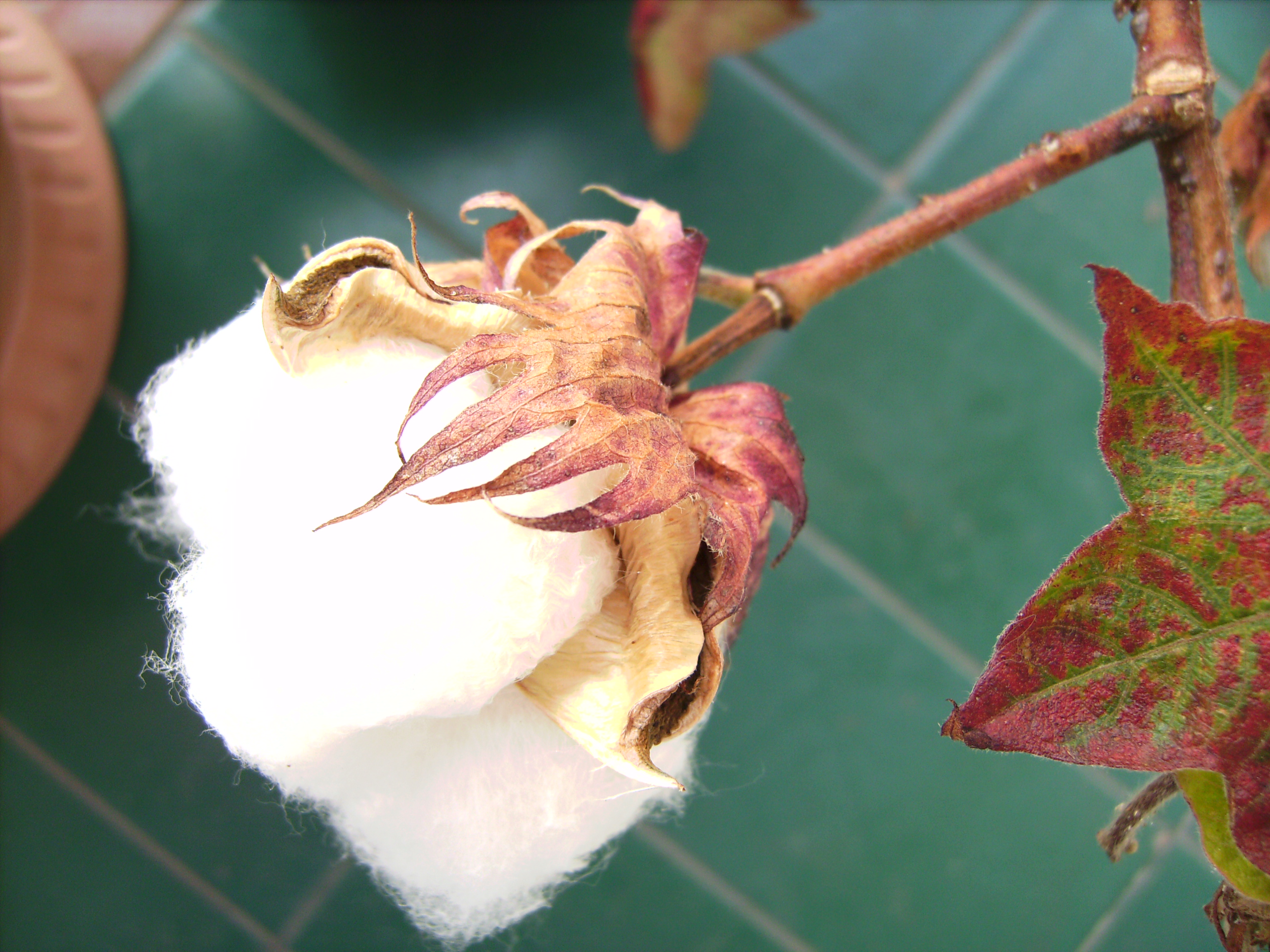 An opened capsule showing the cotton fibers of Gossypium hirsutum in Barcelona